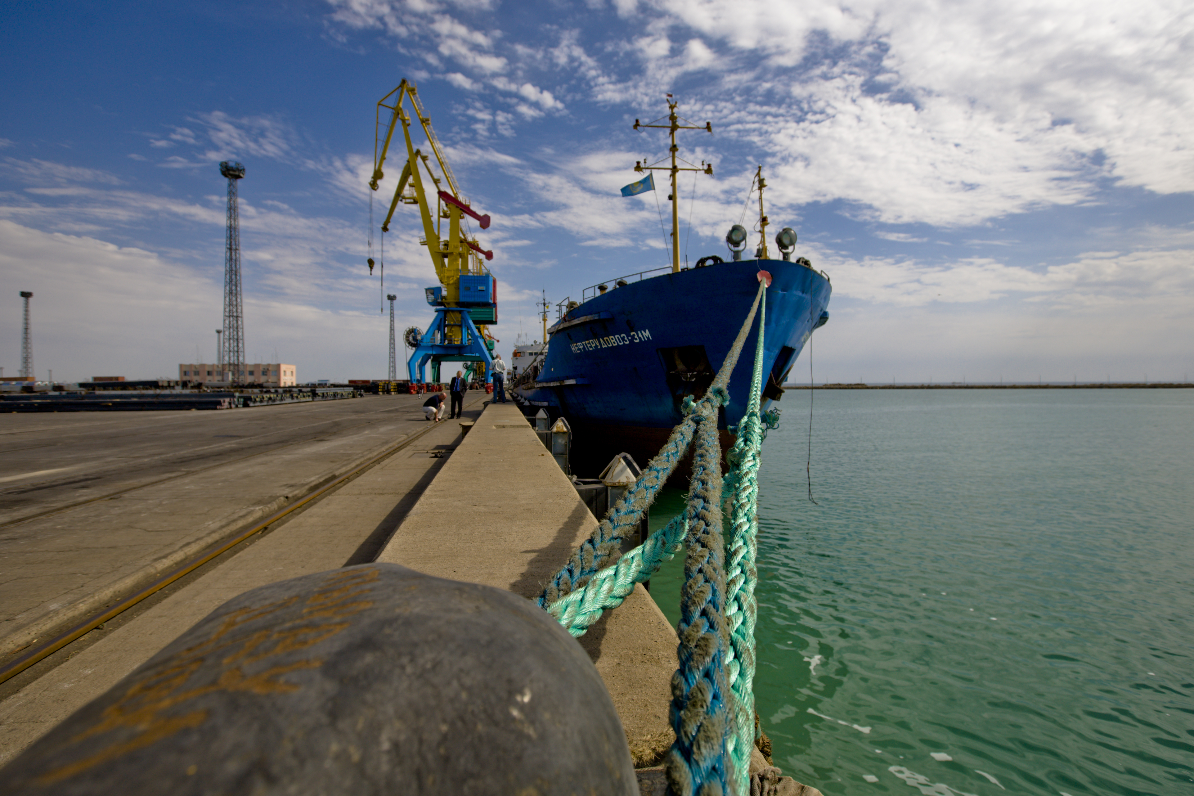 International Sea Port of Aktau, Mangystau region, Kazakhstan